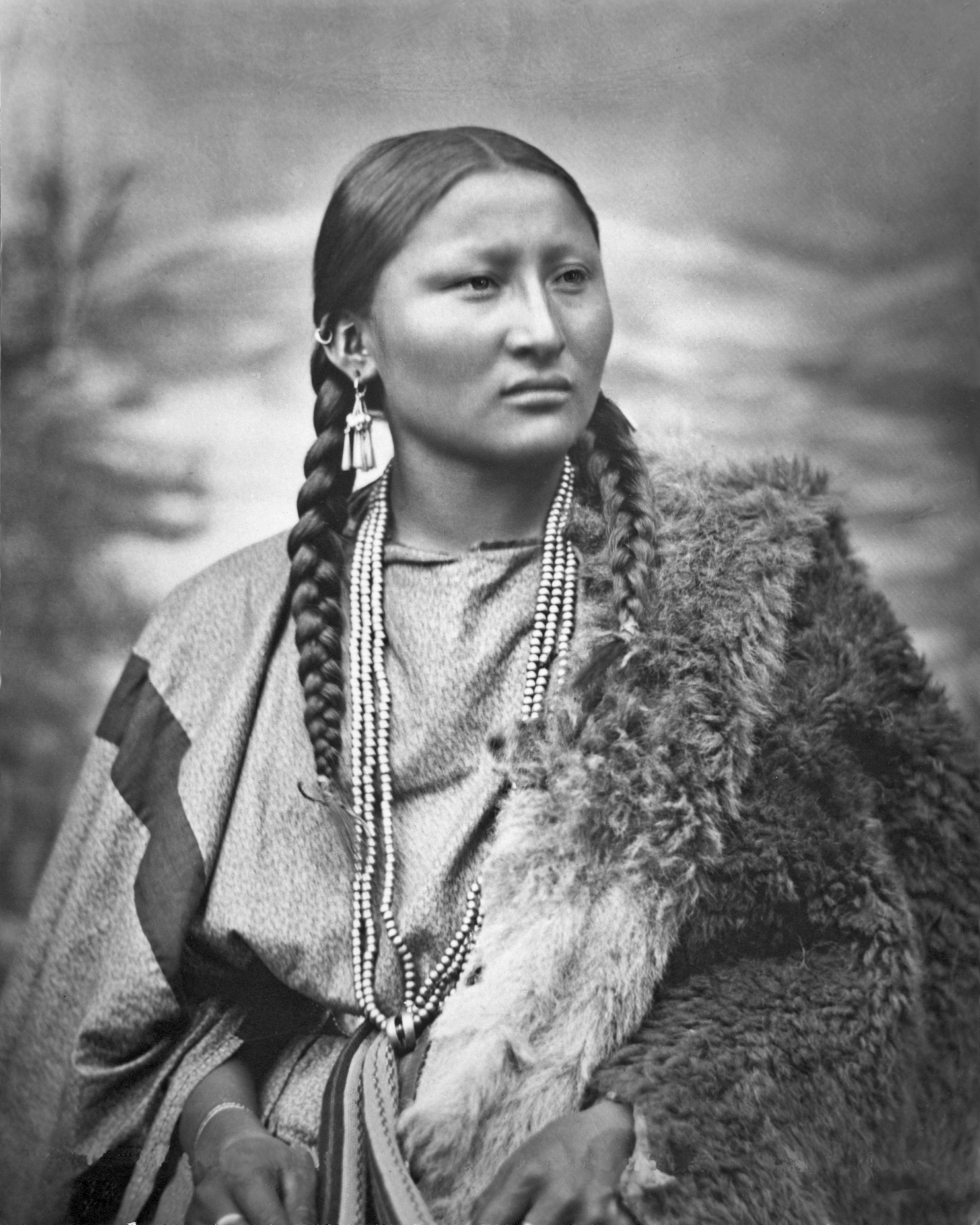 Cheyenne or Arapaho woman Pretty Nose at Fort Keogh, Montana, United States. She is wearing cloth dress with woven cloth belt and buffalo robe, as well as earrings, bracelet, rings and necklace. Collotype.